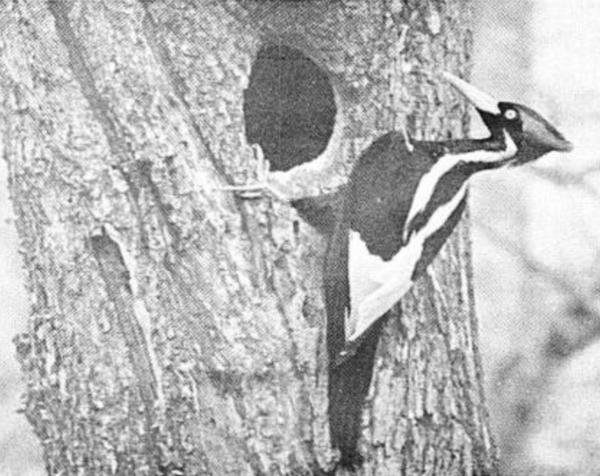 Male Ivory-bill at entrance of nest. Photo taken in Singer Tract, Louisiana by Arthur A. Allen (April 1935). From Recent observations of the Ivory-billed Woodpecker (Auk) Volume 54, Number 2, April, 1937.